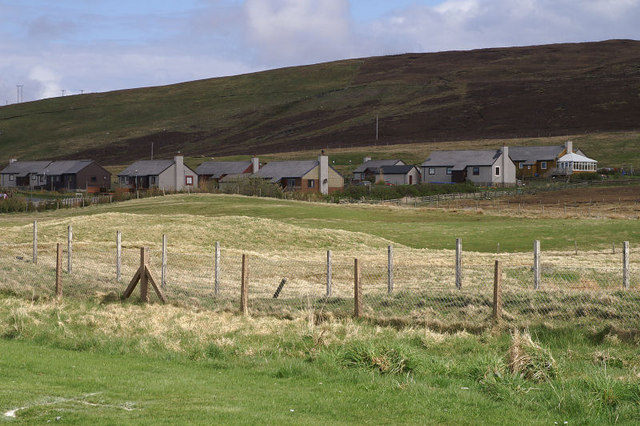 "Toy Town", Brae The uppermost buildings in the housing estate known locally as "Toy Town". Mainland, Shetland.